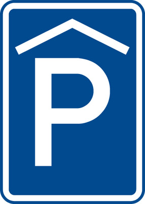 Parking road sign of the Czech Republic